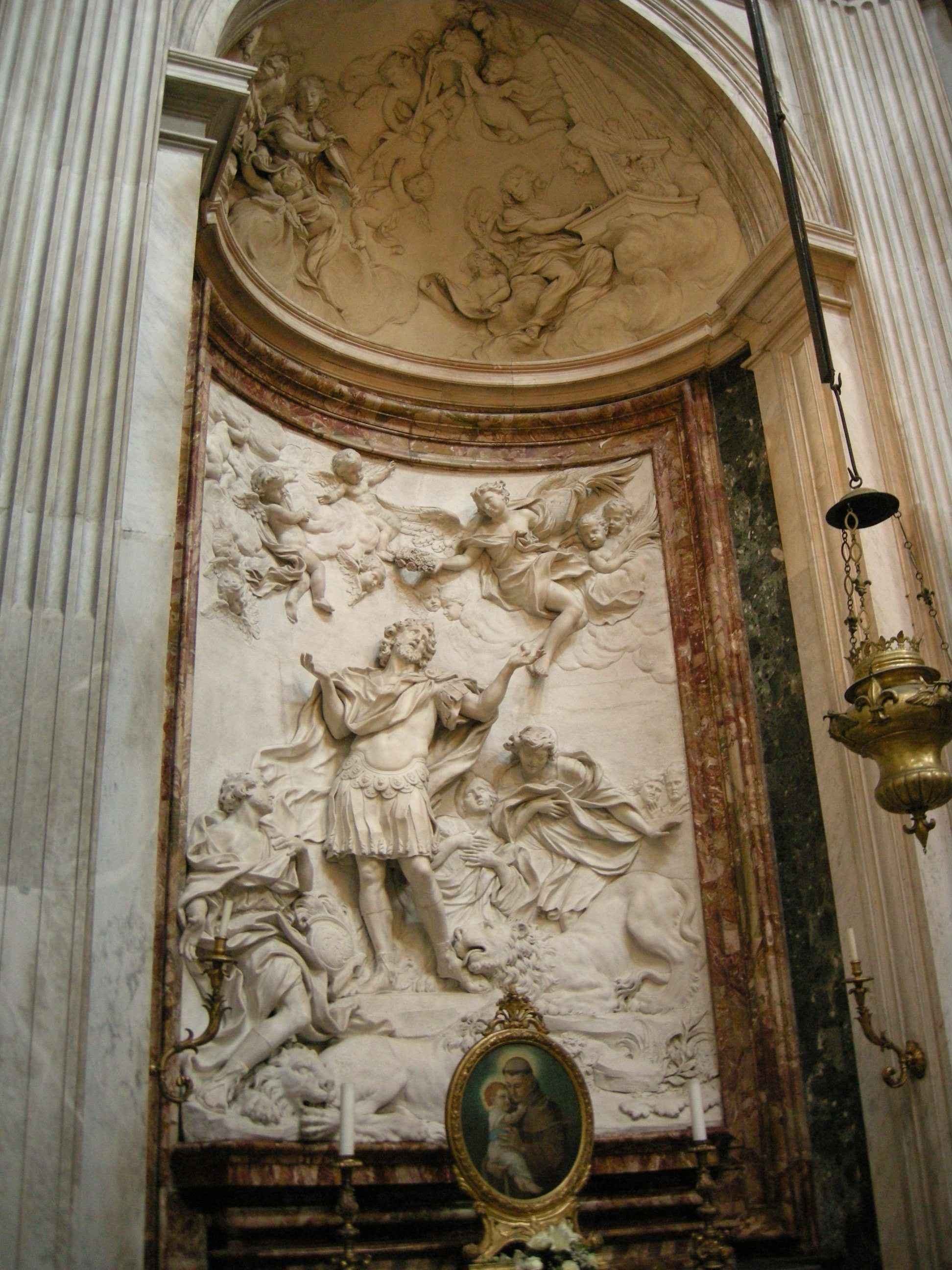 Melchiorre Cafà; Ecstasy of Saint Eustace, Sant'Agnese in Agone, Rome